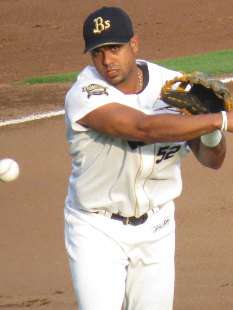 Aarom Baldiris, infielder of the Orix Buffaloes, at Kobe Sports Park Baseball Stadium.